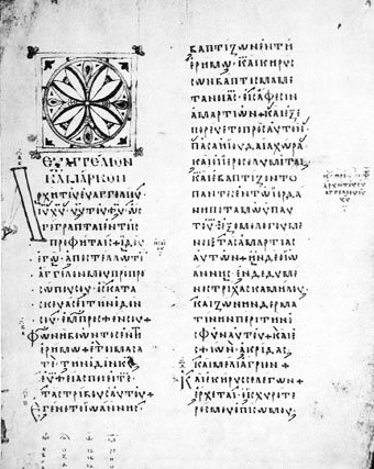 folio 91 recto with the beginning of Mark'w Gospel